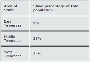 Tennessee slavery ownership by divisions